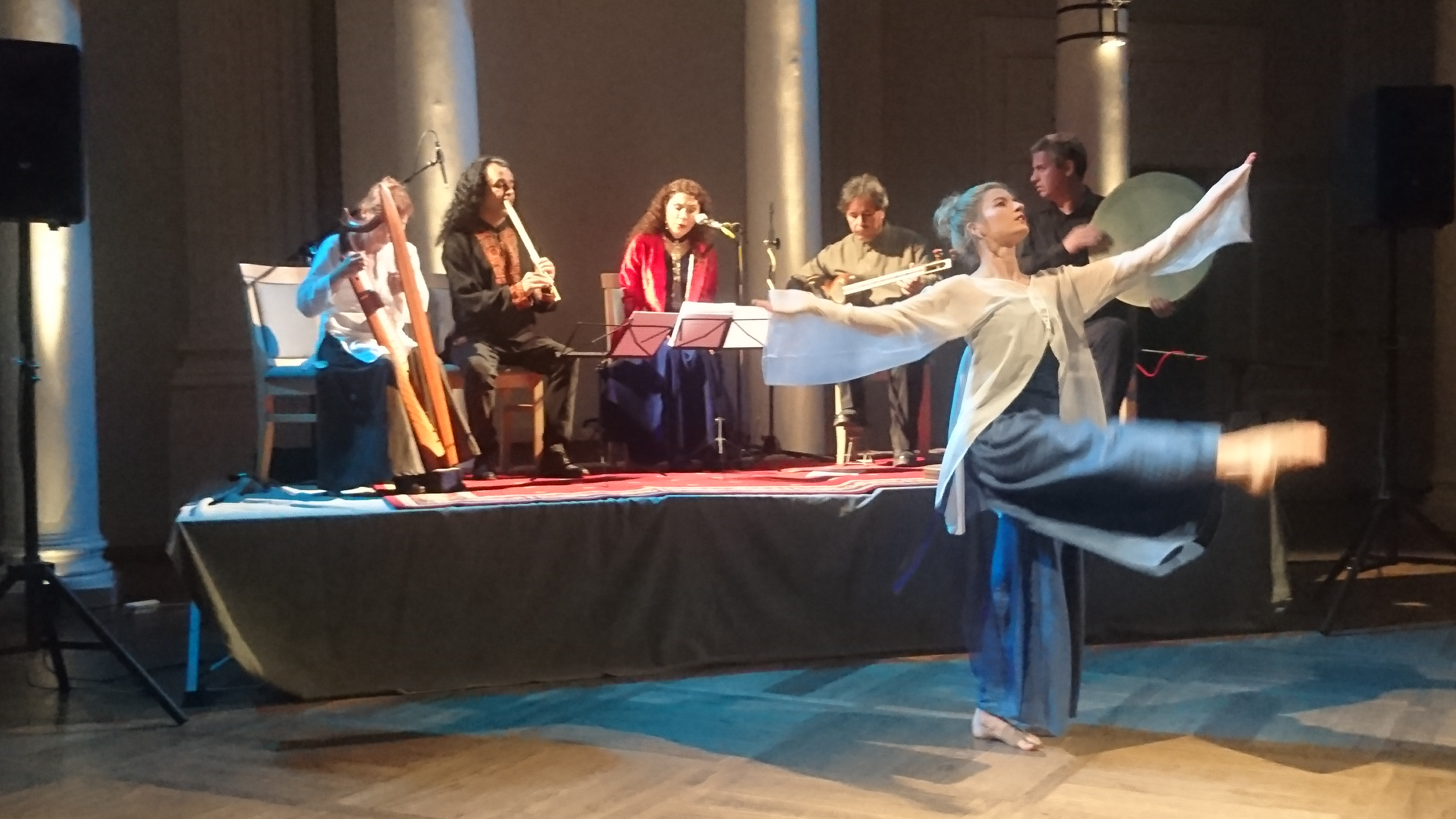 Gian Trio, Raheleh Barzegari, Lilian Langsepp, Saile Johanna Langsepp - Orient et Occident, 13 Oct 2018 in Tartu.